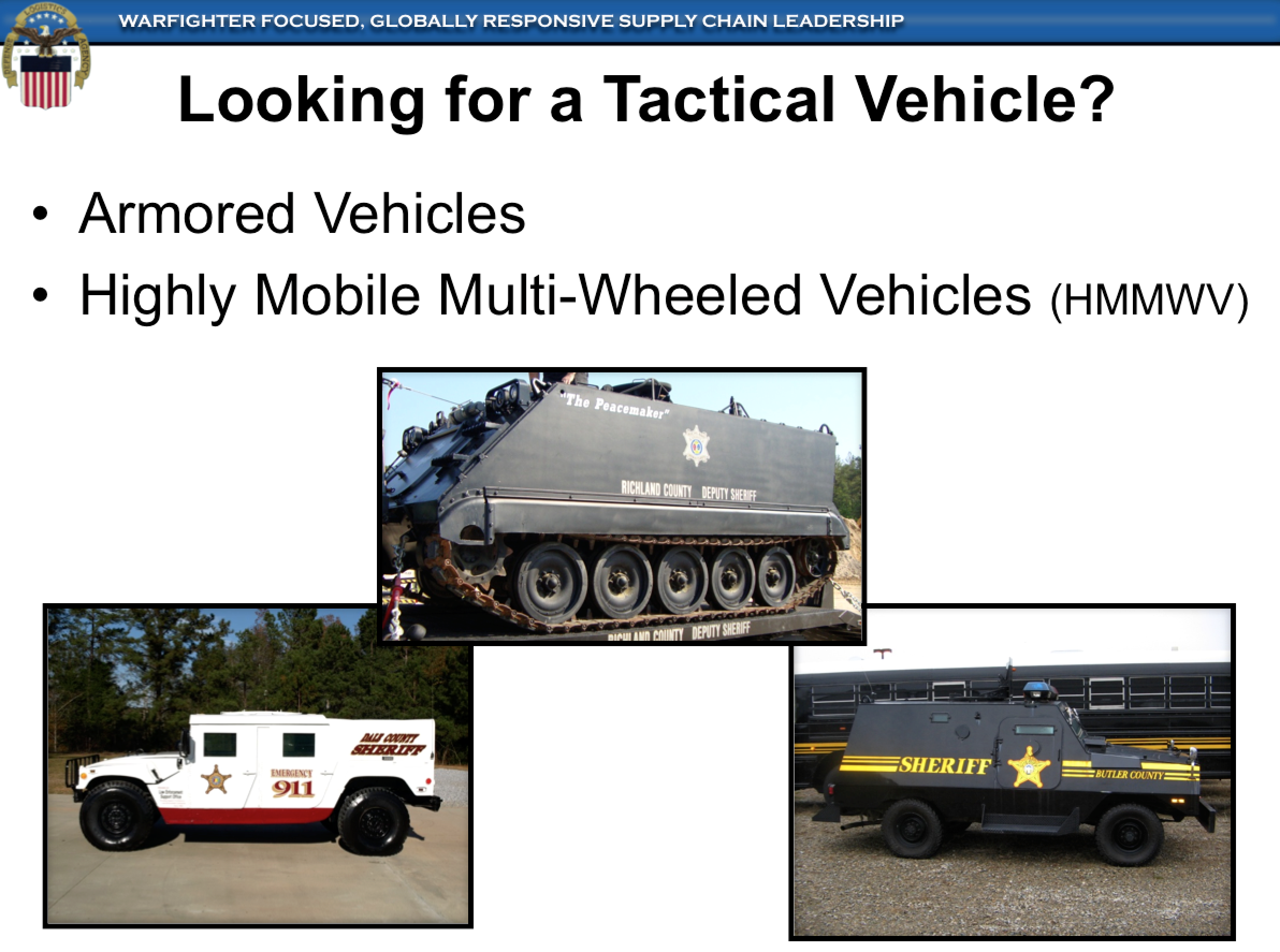 Slide from the Defense Logistics Agency 1033 Program's information brochure.